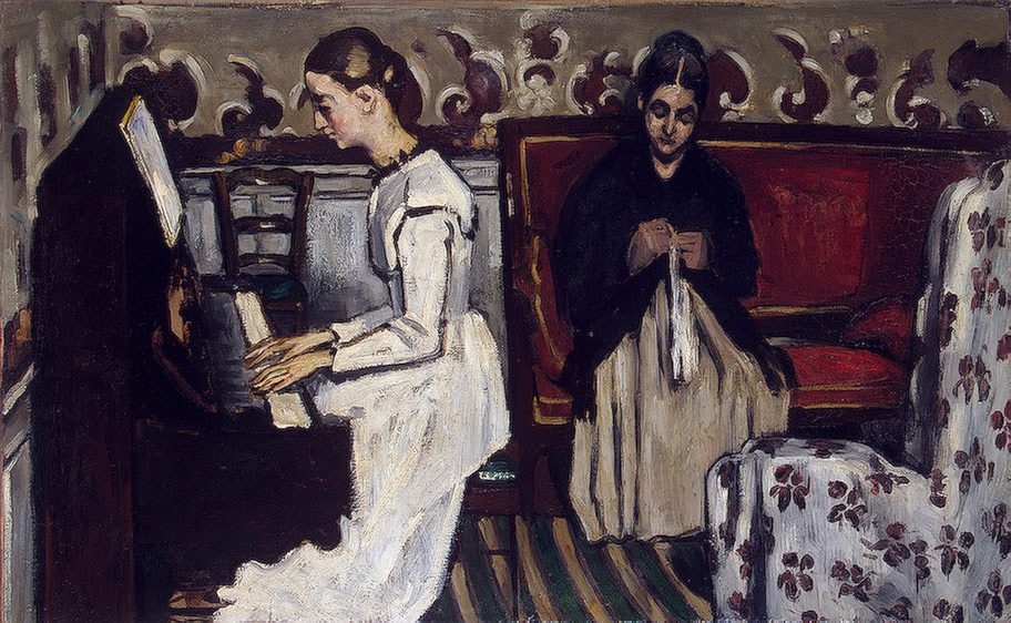 The Overture to Tannhauser: The Artist's Mother and Sister (1868). On exhibit at the Hermitage Museum in St. Petersburg.